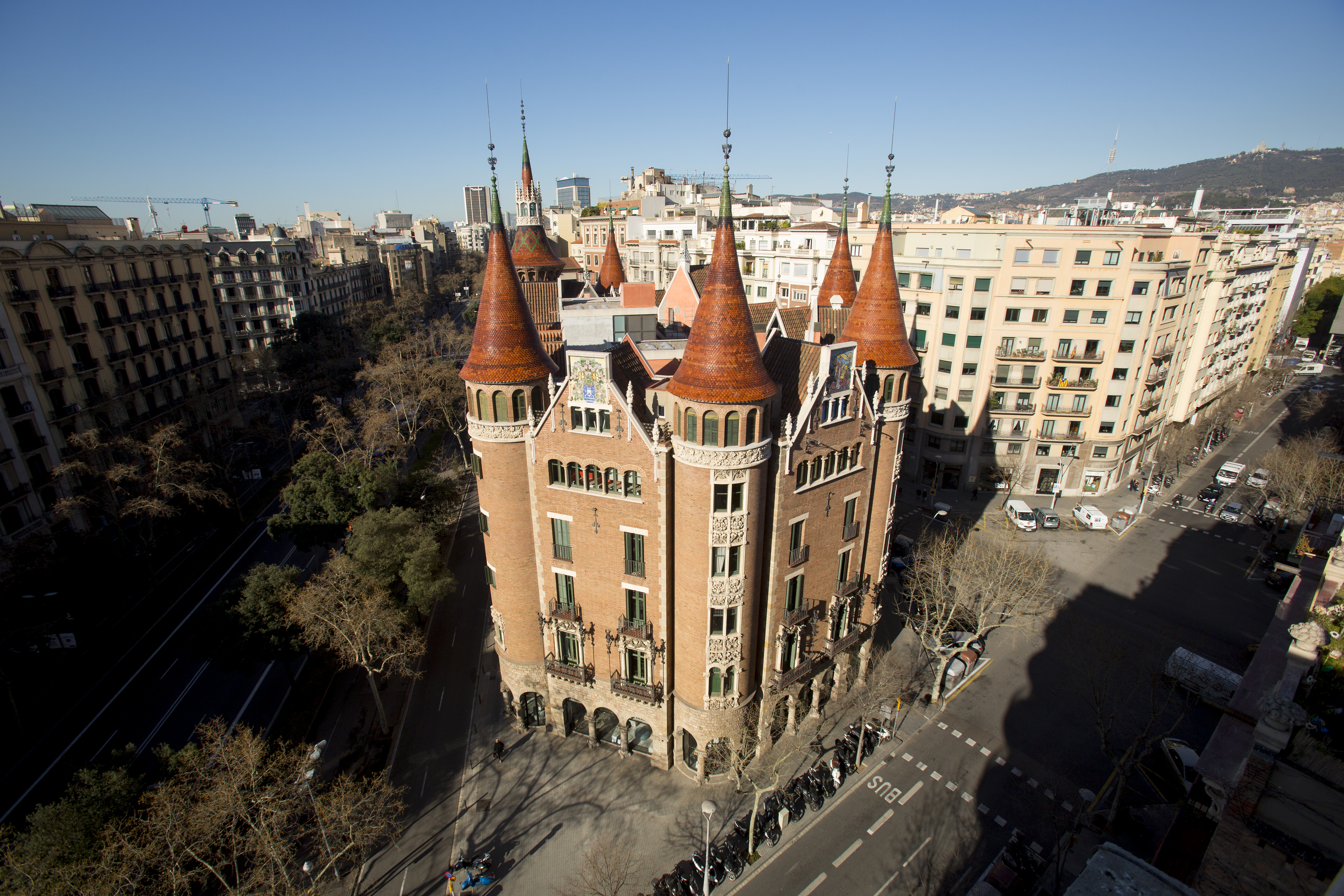 FOTO FERRAN NADEU